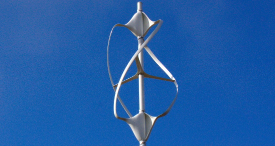 Noveol wind turbine. A silent and aesthetic VAWT.